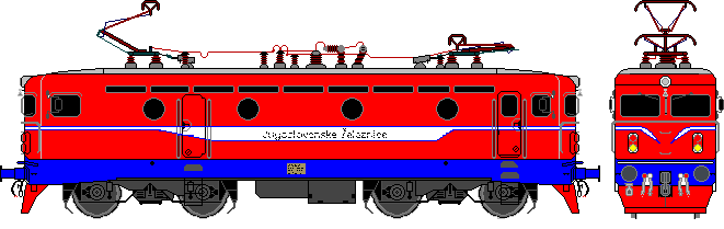 Sketch of original livery of 2141 series